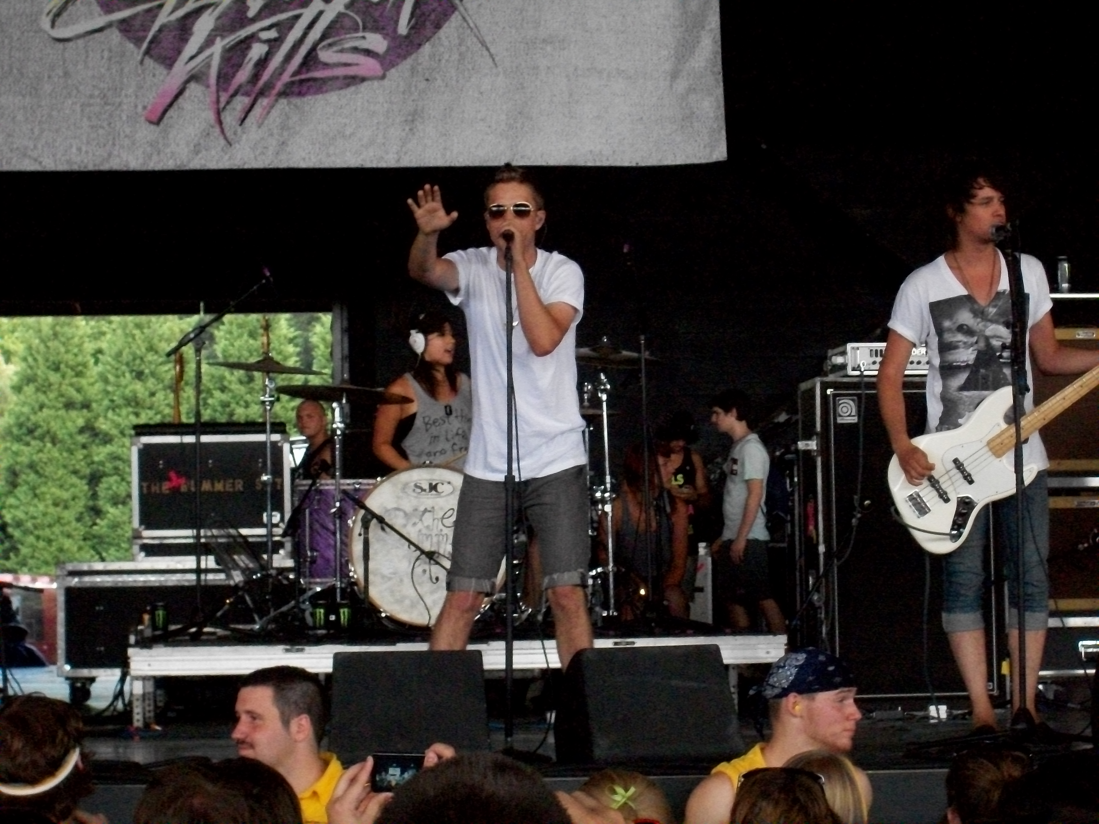 The Summer Set performing at Warped Tour at Charlotte, NC on July 22, 2010